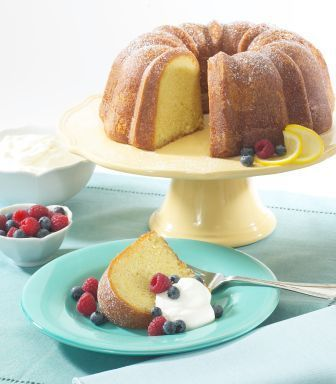 Bundt Pan